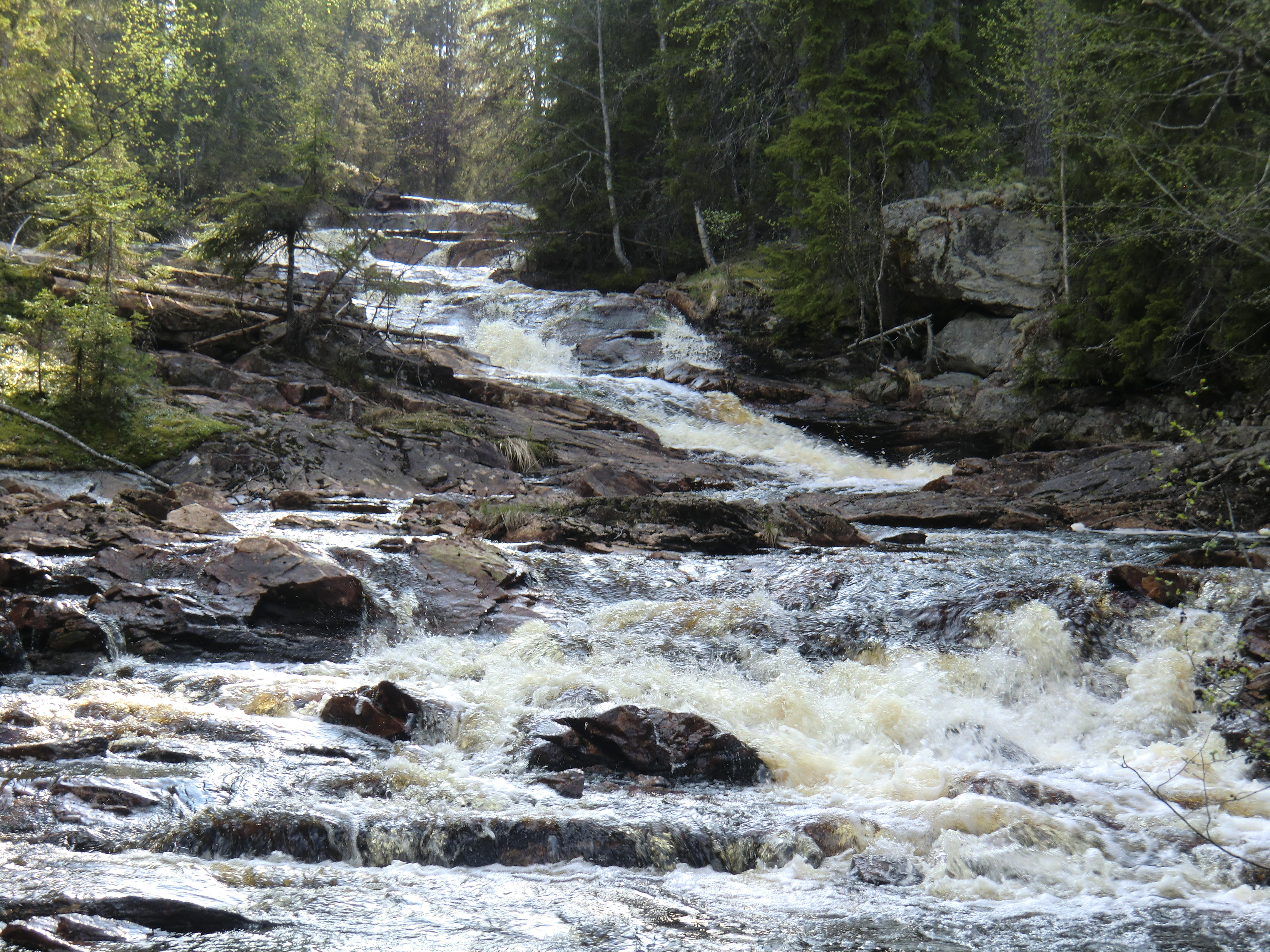 River Granån in Värmland, Sweden